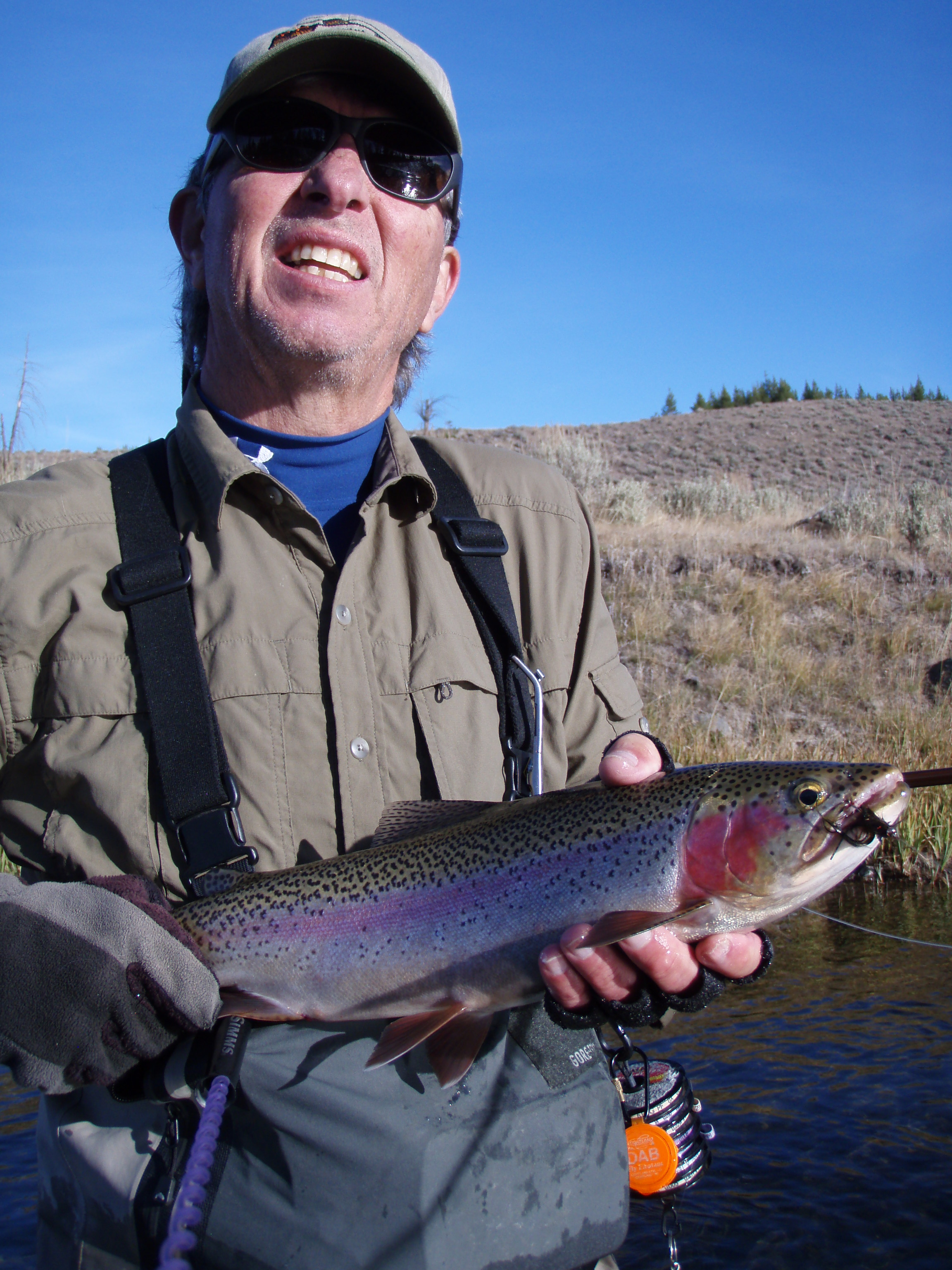 Fly fishing caught this rainbow trout on the Madison River — in Yellowstone National Park.